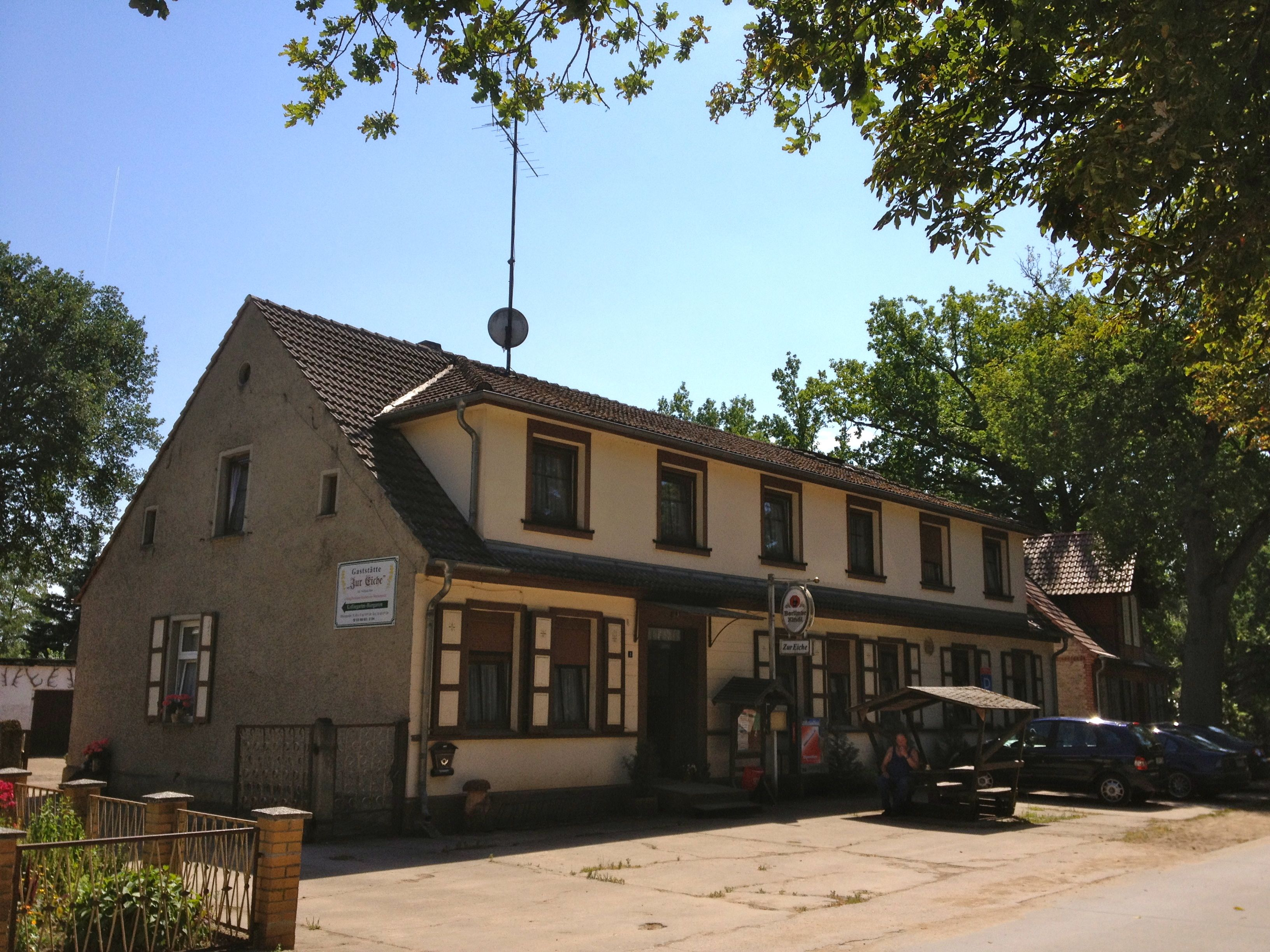 Gaststätte in Groß Väter (seit 2014 geschlossen)